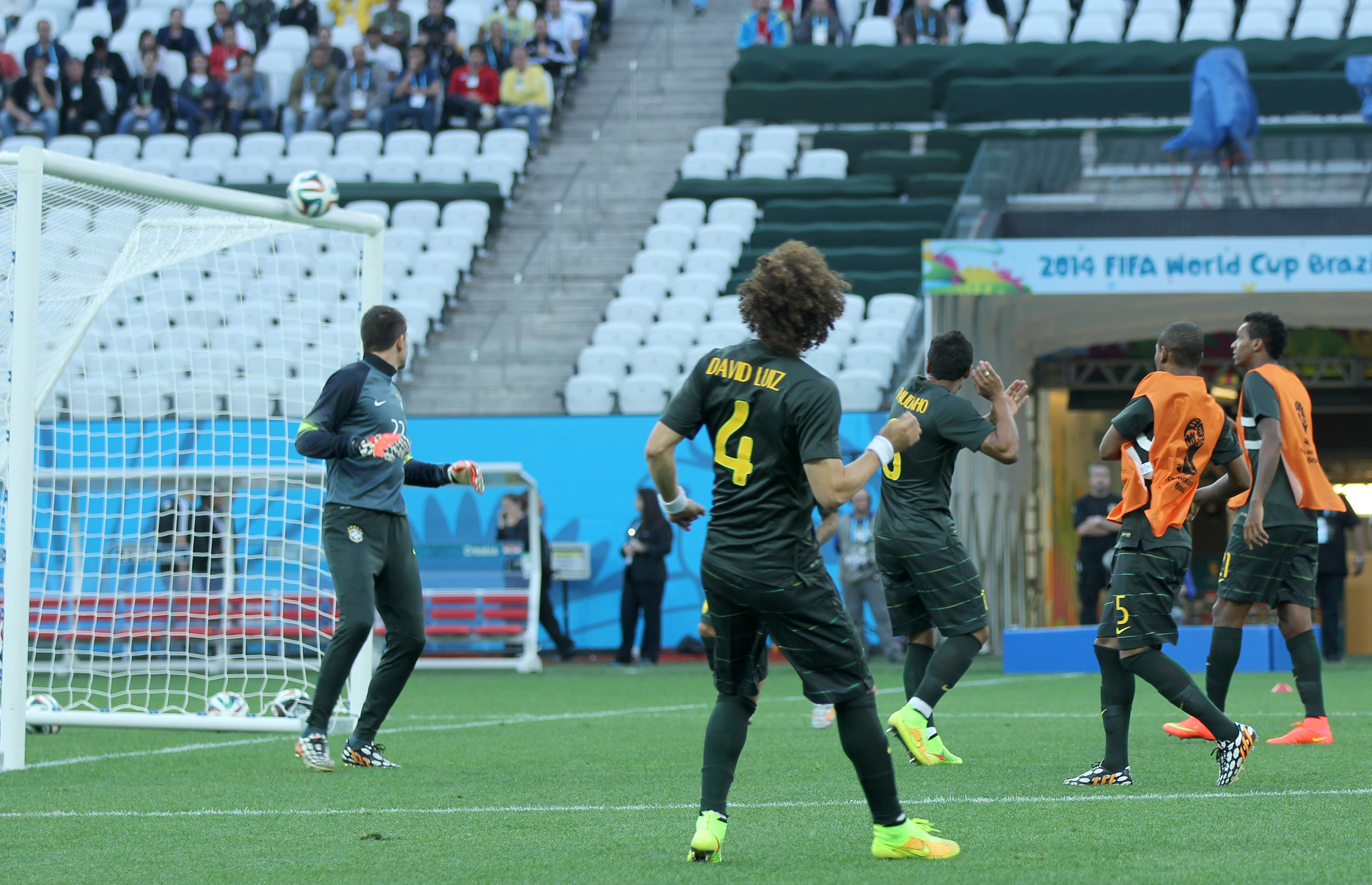 Brazil national team training for 1 day before the start of the first game of the 2014 World Cup qualifier against Croatia 2014-06-11